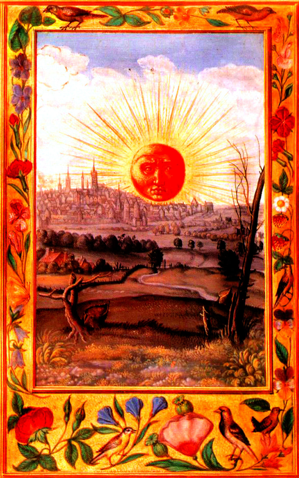 Sun rising over the city (Splendor Solis 22)